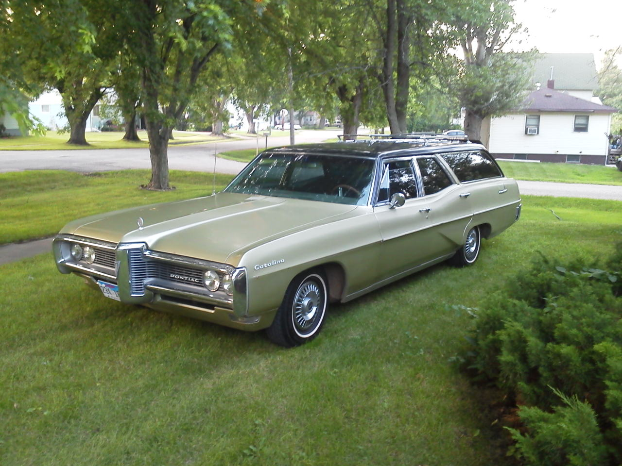 1968 Pontiac Catalina Wagon- 400 c.i. with a 2-barrel carb, 3-speed automatic transmission.